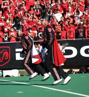 Drum majors from the Texas Tech University Goin' Band from Raiderland at Texas Tech University in Lubbock, Texas, US.